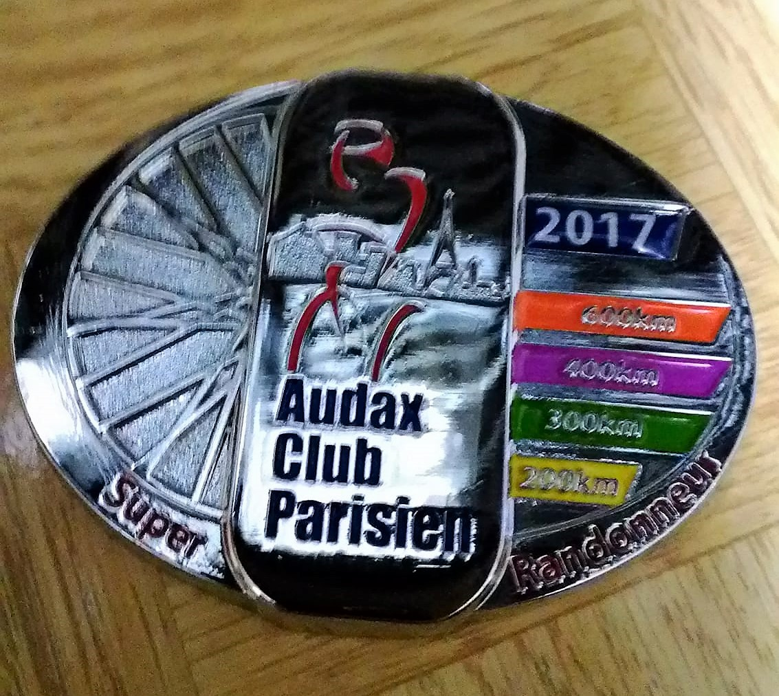 Super Randonneur-Medal(2017)